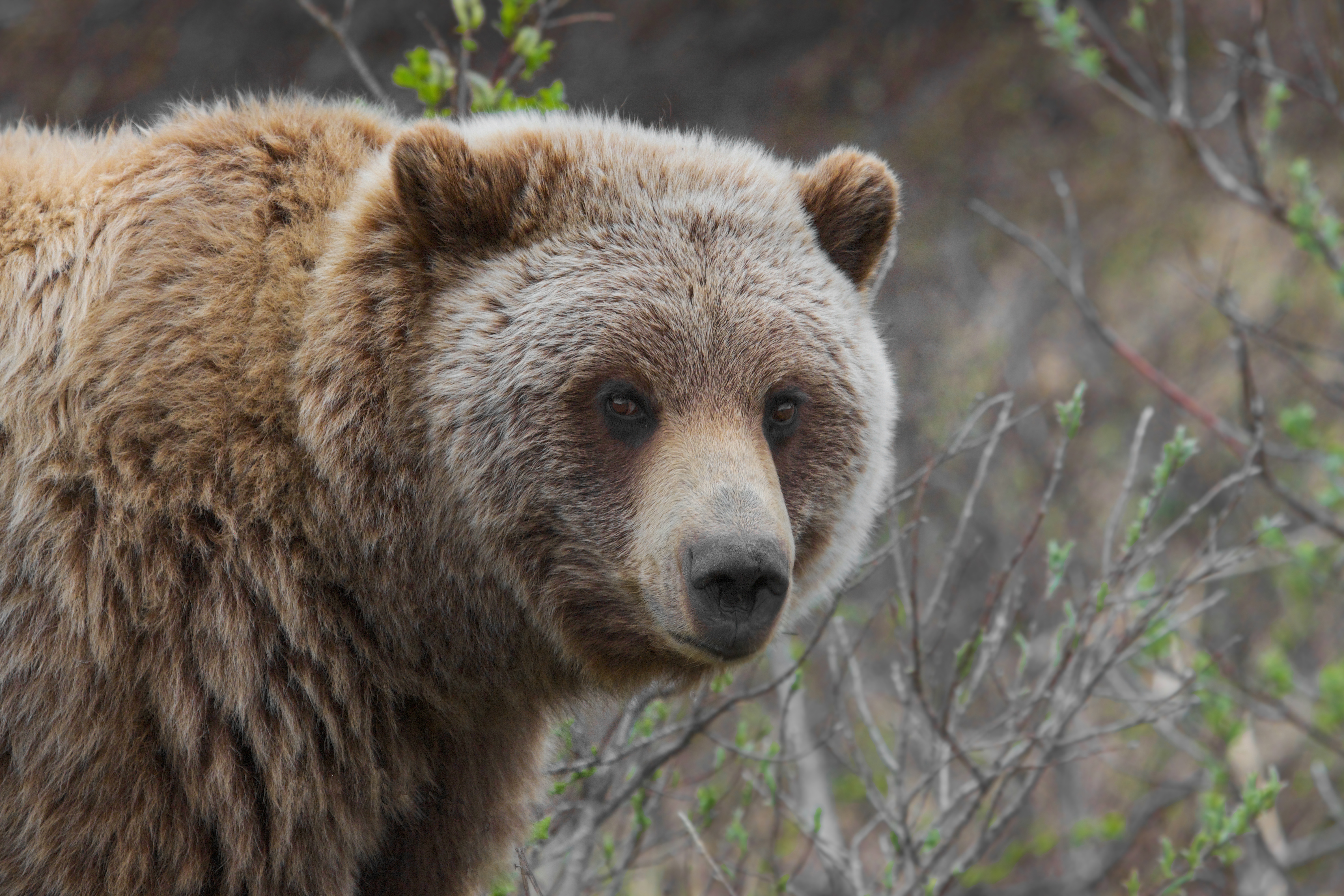 The grizzly bear (Ursus arctos ssp.) is any North American subspecies of brown bear